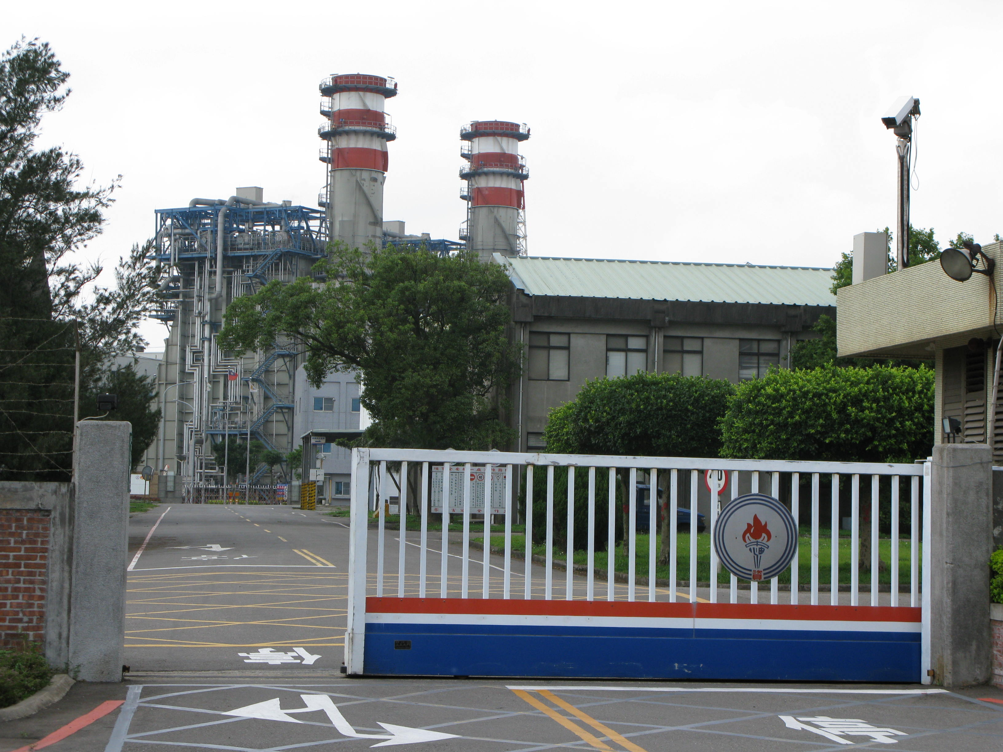 CPCC Gueishan oil refinery ,Taiwan.